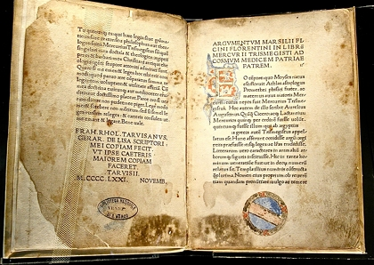 Corpus Hermeticum: first Latin edition, by Marsilio Ficino, 1471 CE, at the Bibliotheca Philosophica Hermetica, Amsterdam.